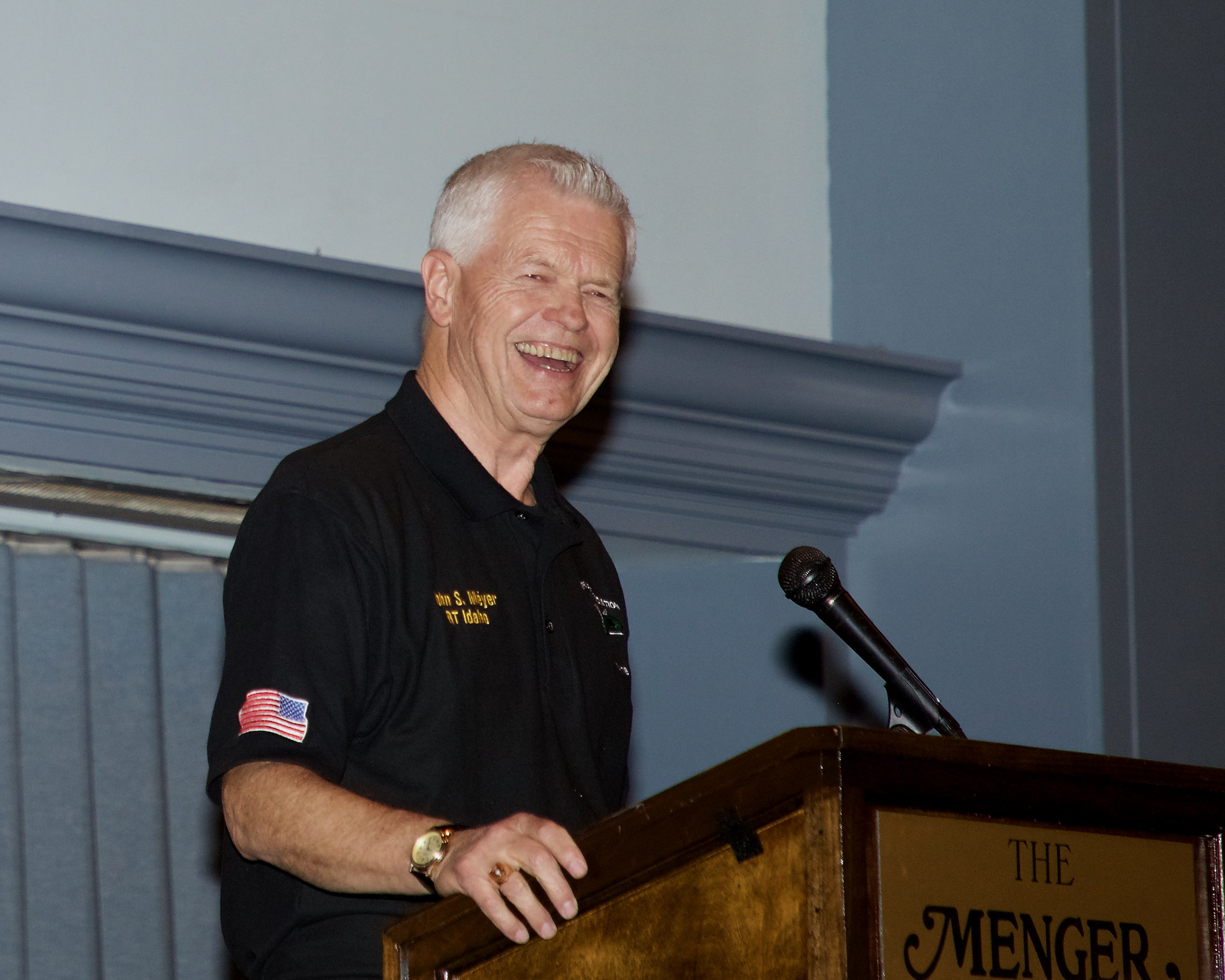 American author and U.S. Army Special Forces combat veteran, John Stryker "Tilt" Meyer, talks to the A-1 Skyraider Association during their 2017 Reunion at the Menger Hotel in San Antonio, Texas, United States.